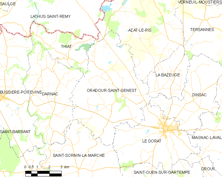 Map of French municipality Oradour-Saint-Genest